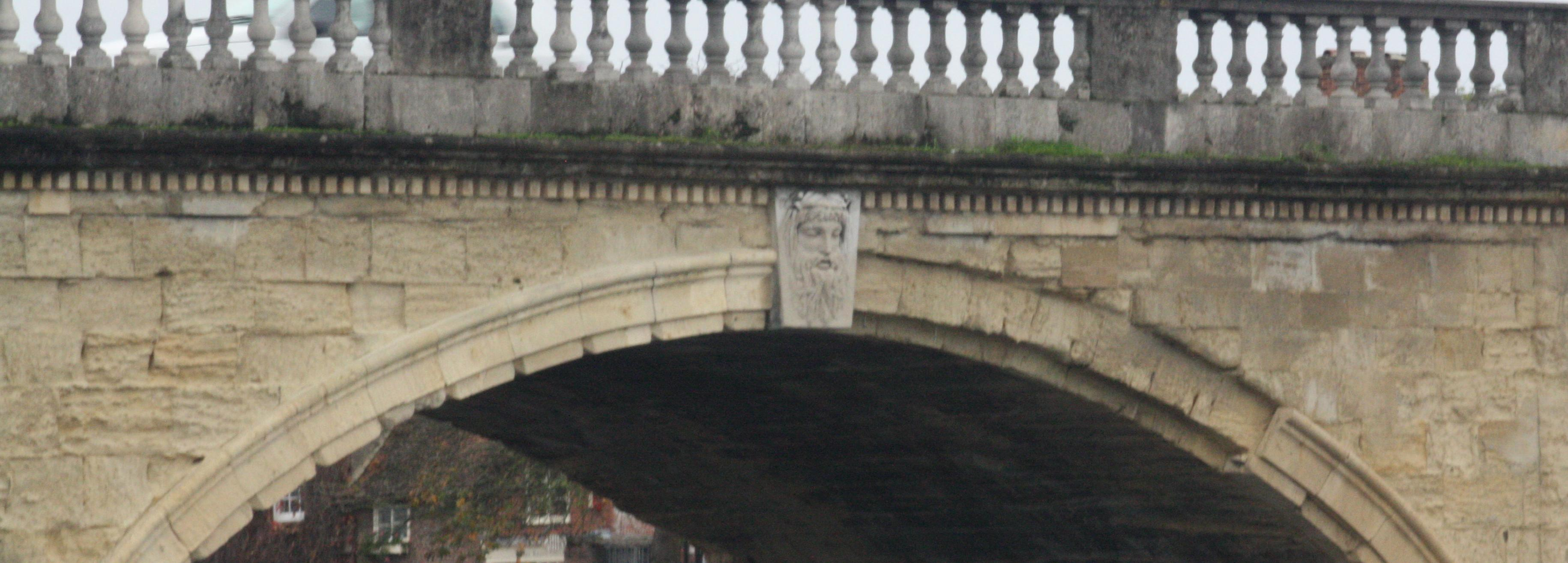 Sculptures of god Thames by Anne Seymour Damer at the upstream keystone of the central arch of the Henley bridge. Henley-on-Thames, UK